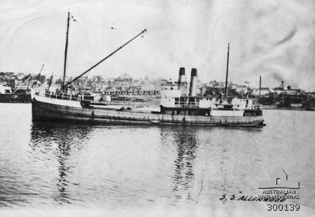 THE COASTAL CARGO VESSEL ALLENWOOD BEFORE SHE WAS COMMISSIONED INTO THE RAN AS AN AUXILIARY MINESWEEPER ON 1941-09-16.